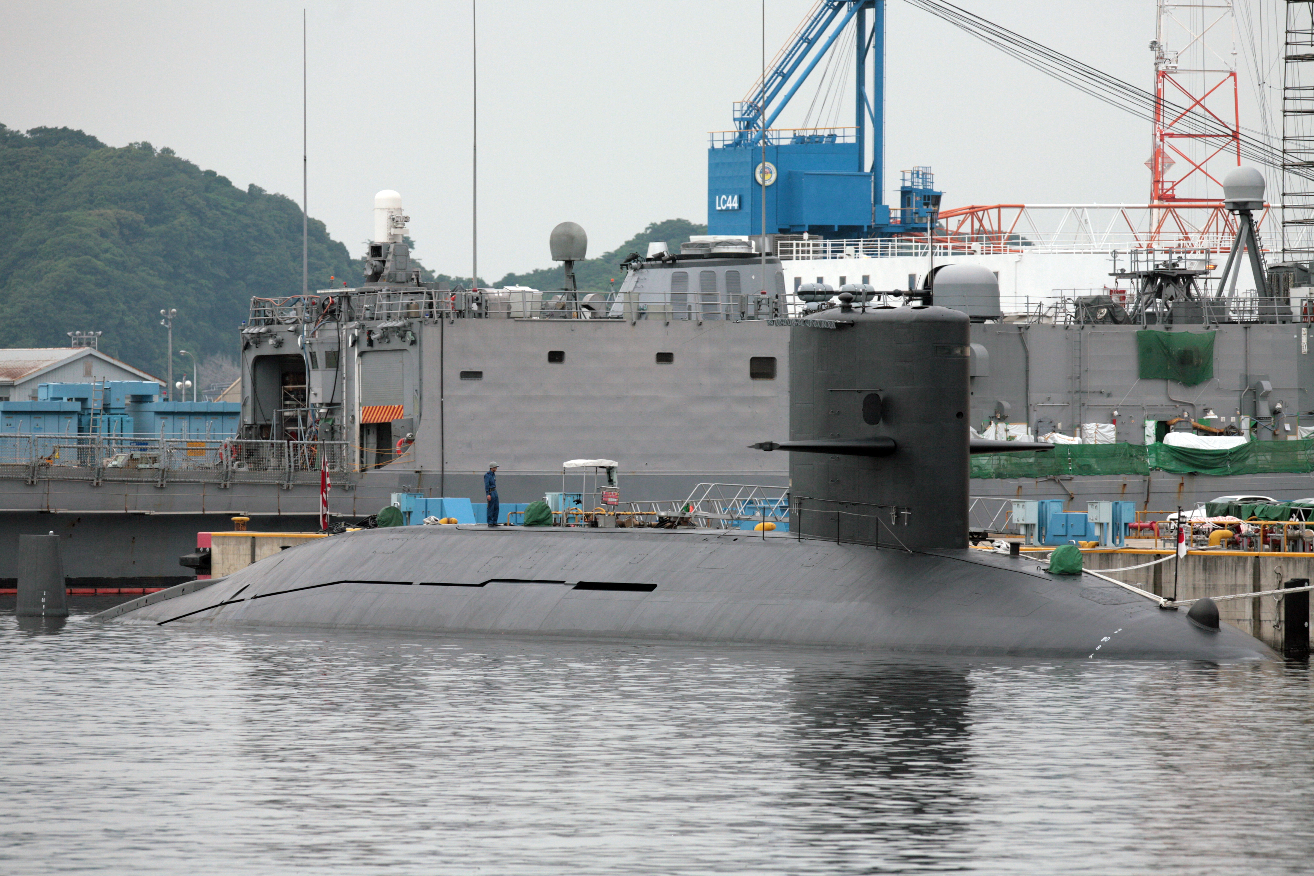 Wakashio (SS 587), a Japanese Harushio class diesel electric submarine docked at Yokosuka naval base. Canon EOS 5D